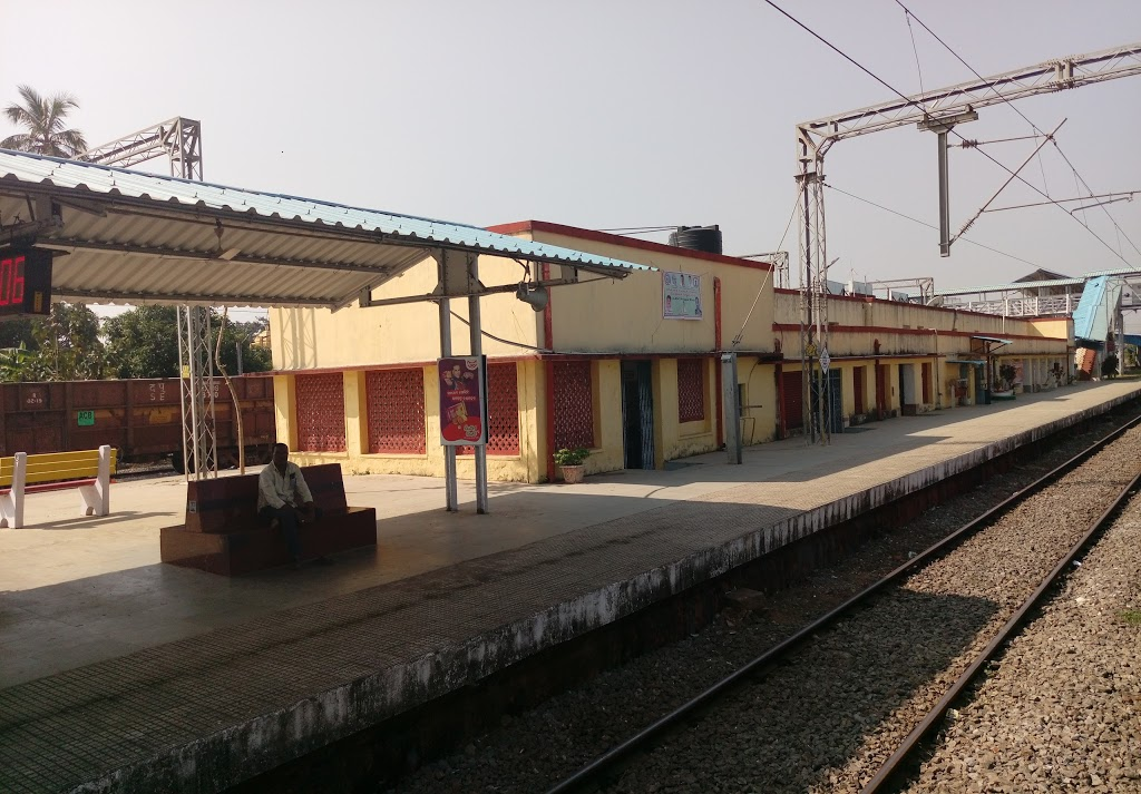 This is the Picture of chatrapur main railway station